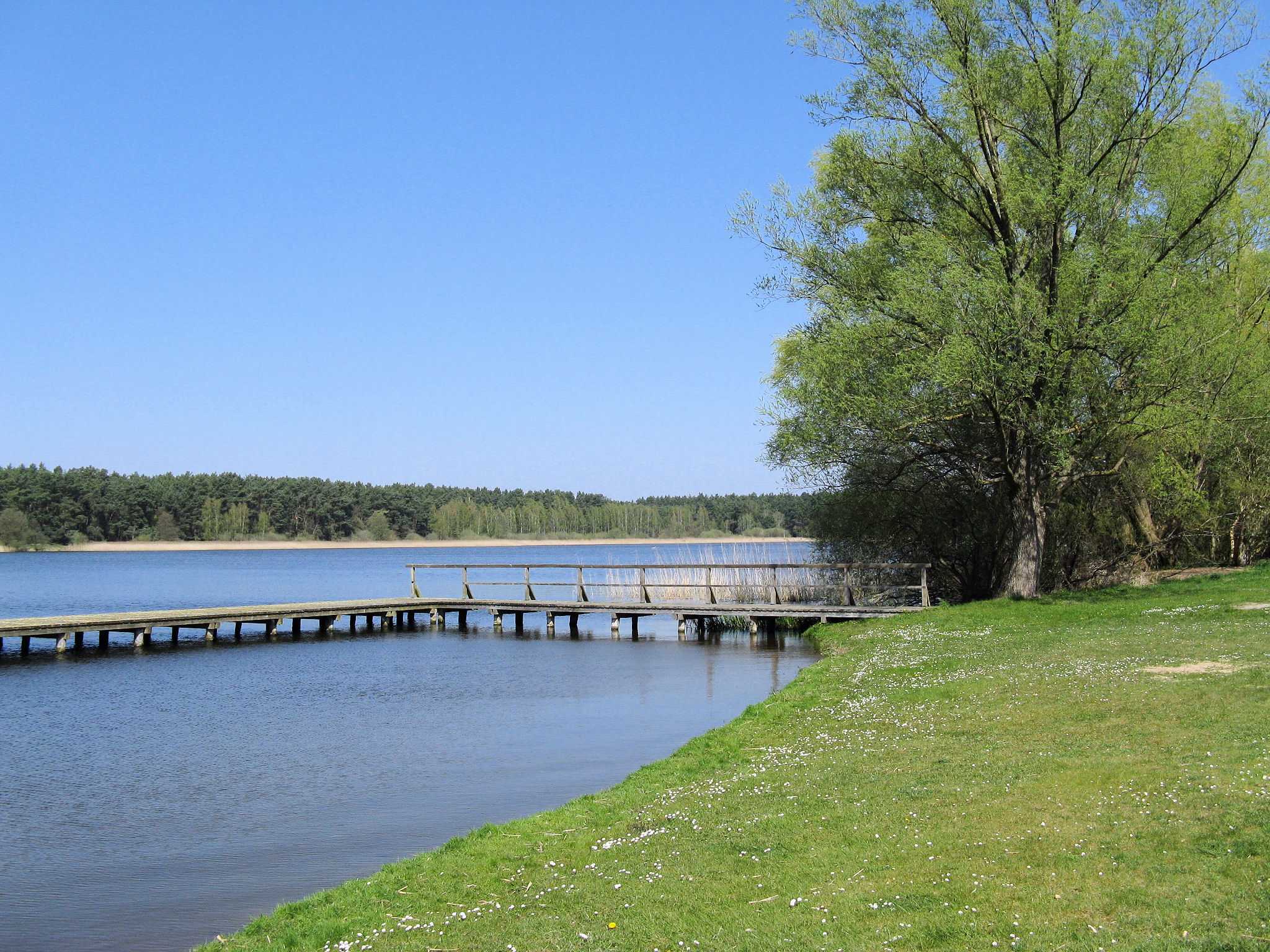 Lake Barniner See in Barnin, disctrict Parchim, Mecklenburg-Vorpommern, Germany